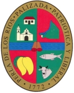 In the interior part it has two hills that they represent to the place where these existed, called the Playón, which they eliminated in the earthquake of 1818 provoked by the volcano Santa Maria (located in the Republic of Guatemala) and that gave place to the current riverbed of the Rio Palisade. Likewise, are observed two palms that reflect abundance of this species in the hills. It appreciates also a river that represents a riverbed that was happening previously at the foot of the hills. (This description is of the first shield which is not used in the current administration of the Municipal Government)